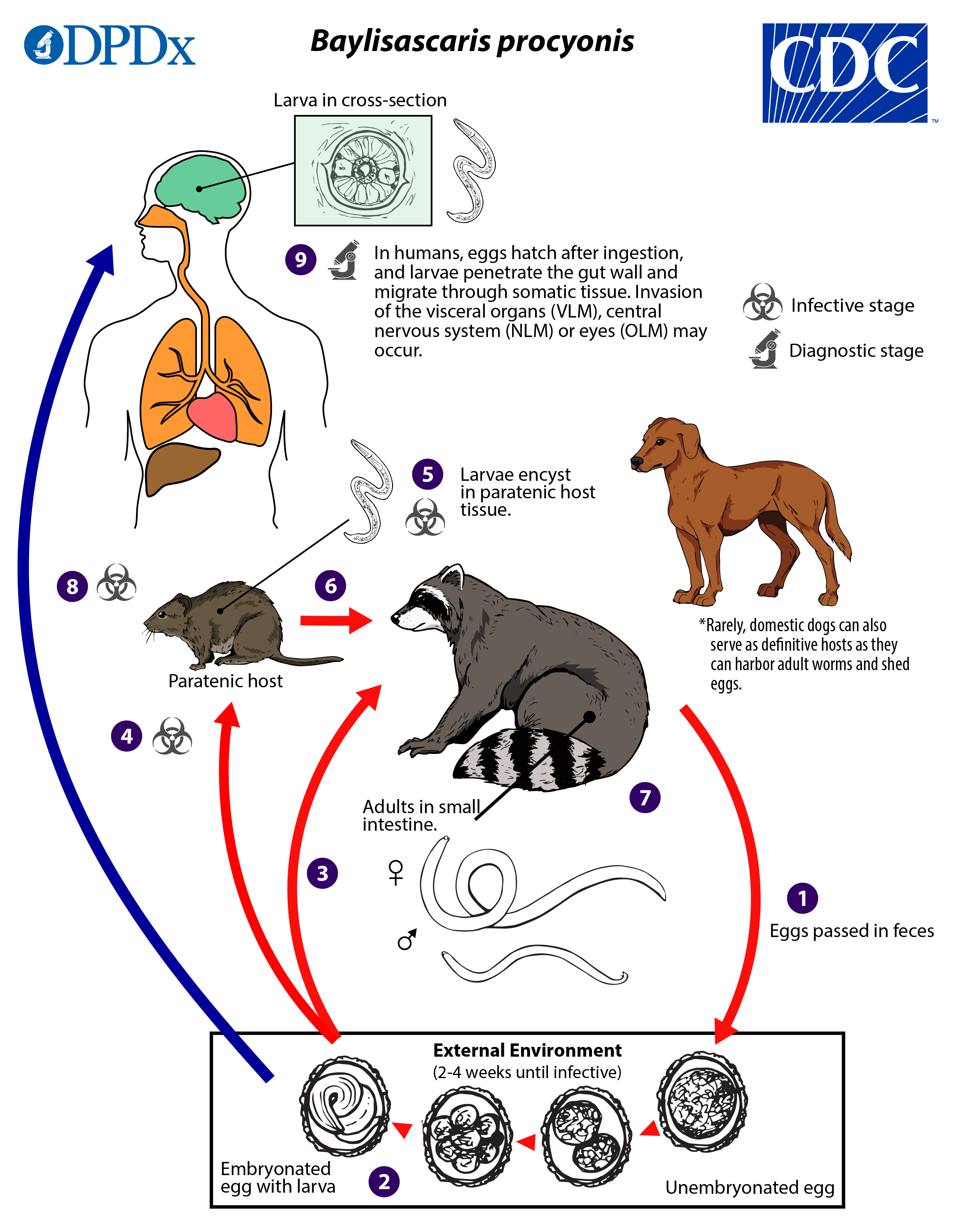 Life cycle of Baylisascaris procyonis; DPDx, Centers for Disease Control and Prevention